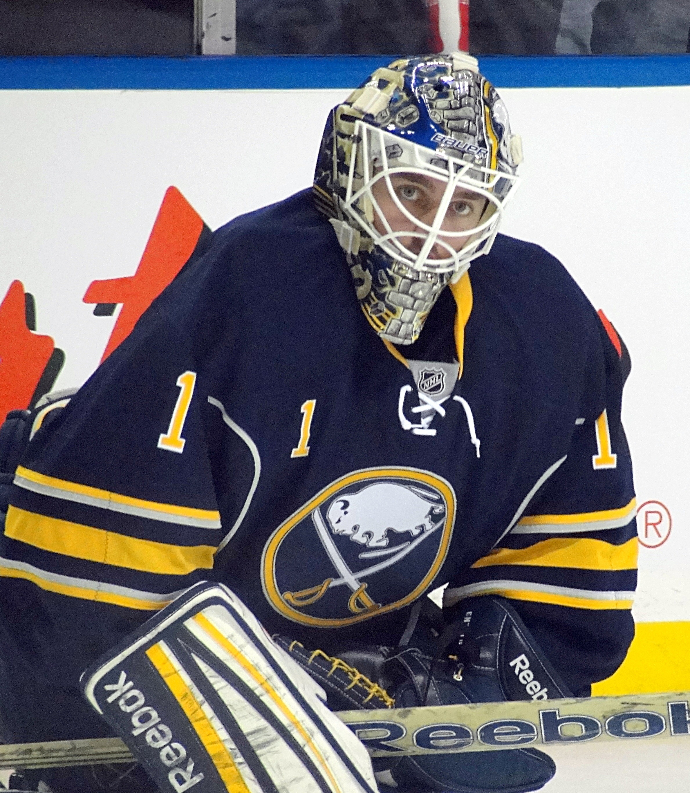 Buffalo Sabres back-up goaltender Jhonas Enroth warms up for a February 19, 2012 game against the Pittsburgh Penguins at First Niagara Center in Buffalo, NY.